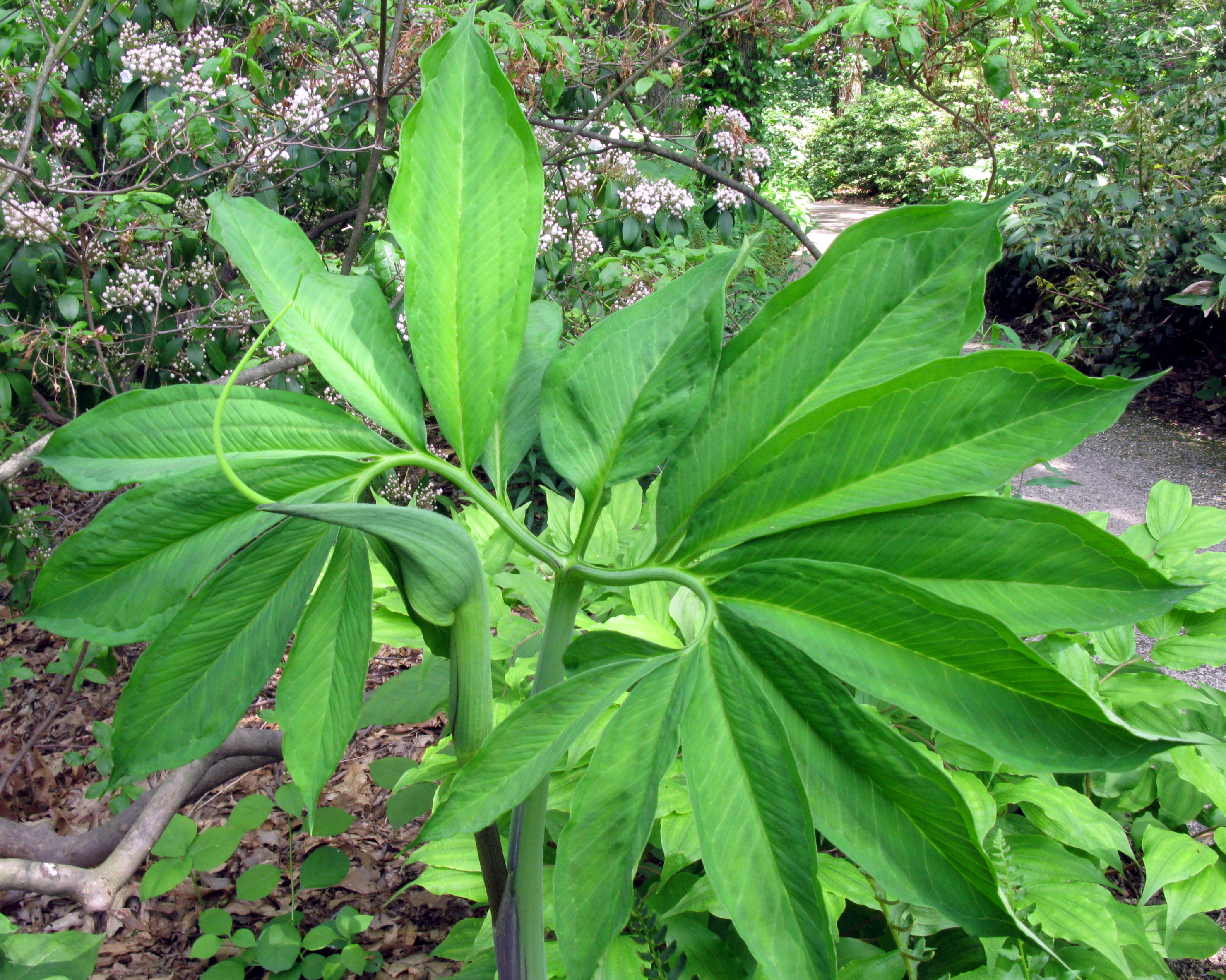 Arisaema dracontium in Pennsylvania, USA. "It's big and green at Jenkins Arboretum. A native plant."